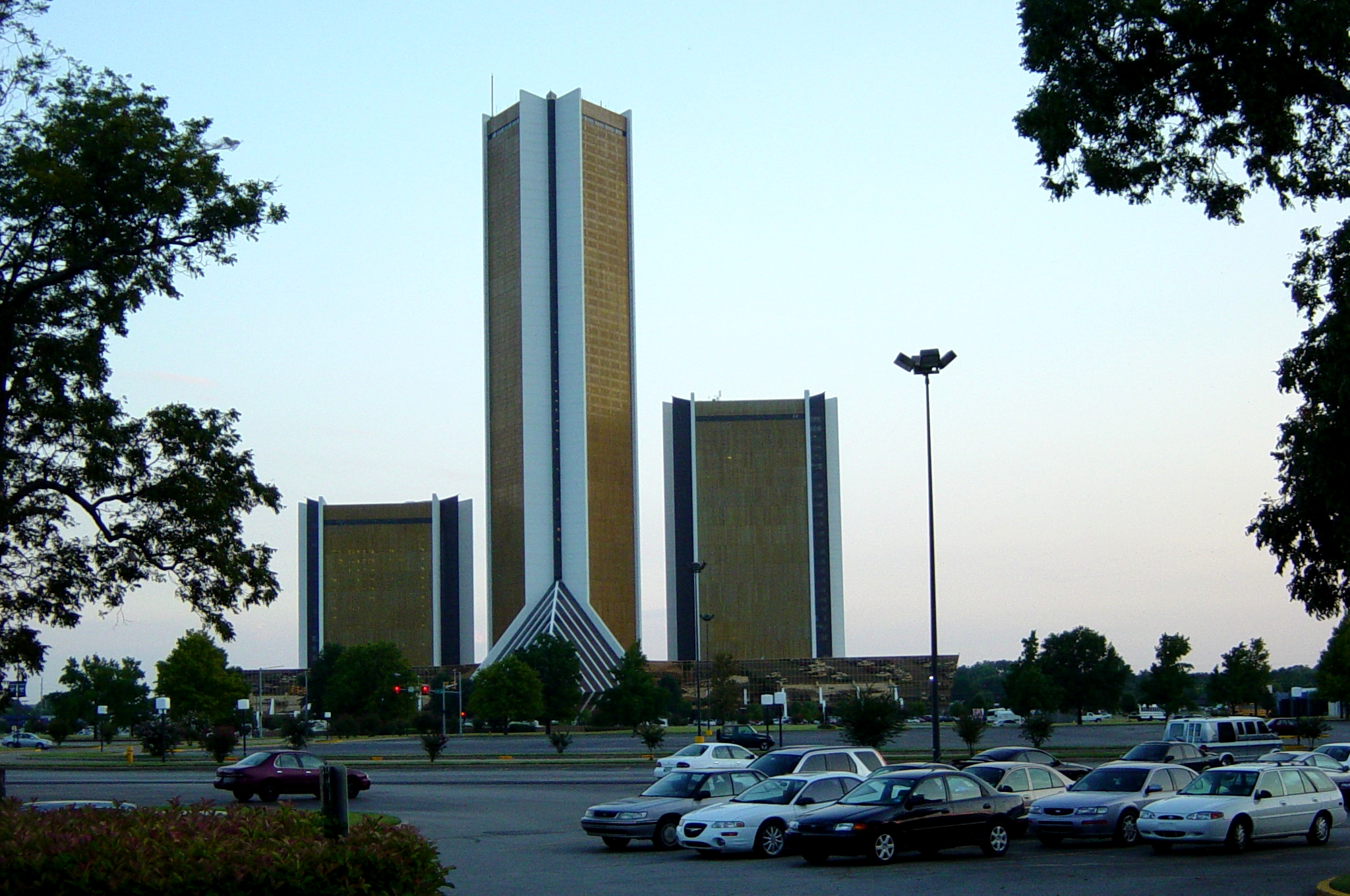 Photograph of the CityPlex Towers, formerly known as the City of Faith Medical and Research Center, as viewed from the campus of Oral Roberts Universityen in Tulsaen, Oklahomaen.